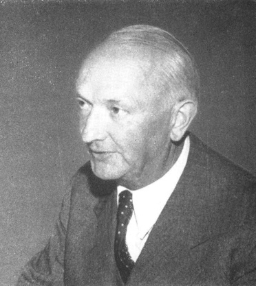 Gustav Larson (1887-1968) — one of the two 1920s founders of the Volvo company. Vice president and technical manager for Volvo AB, Sweden, from 1926(27)-1968.